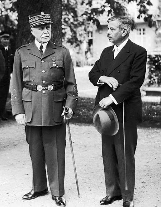 Marshal Petain And Pierre Laval In The Park Of The Sevigne Pavillion In Vichy Around 1942